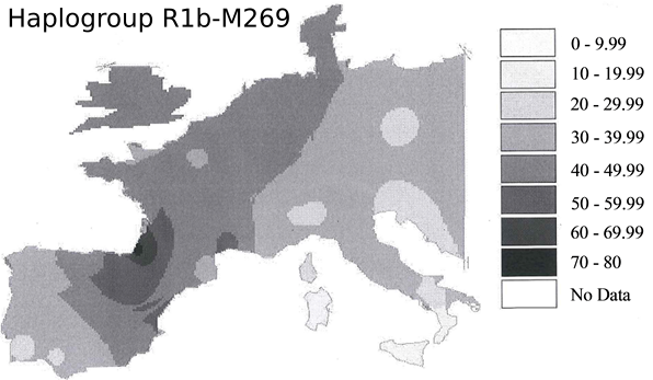 Map of haplogroup R1b-M269 in West-Europe and in the Mediterranean basin. The various nuances of grey correspond to artificial discontinuities, with density percentages as indicated.